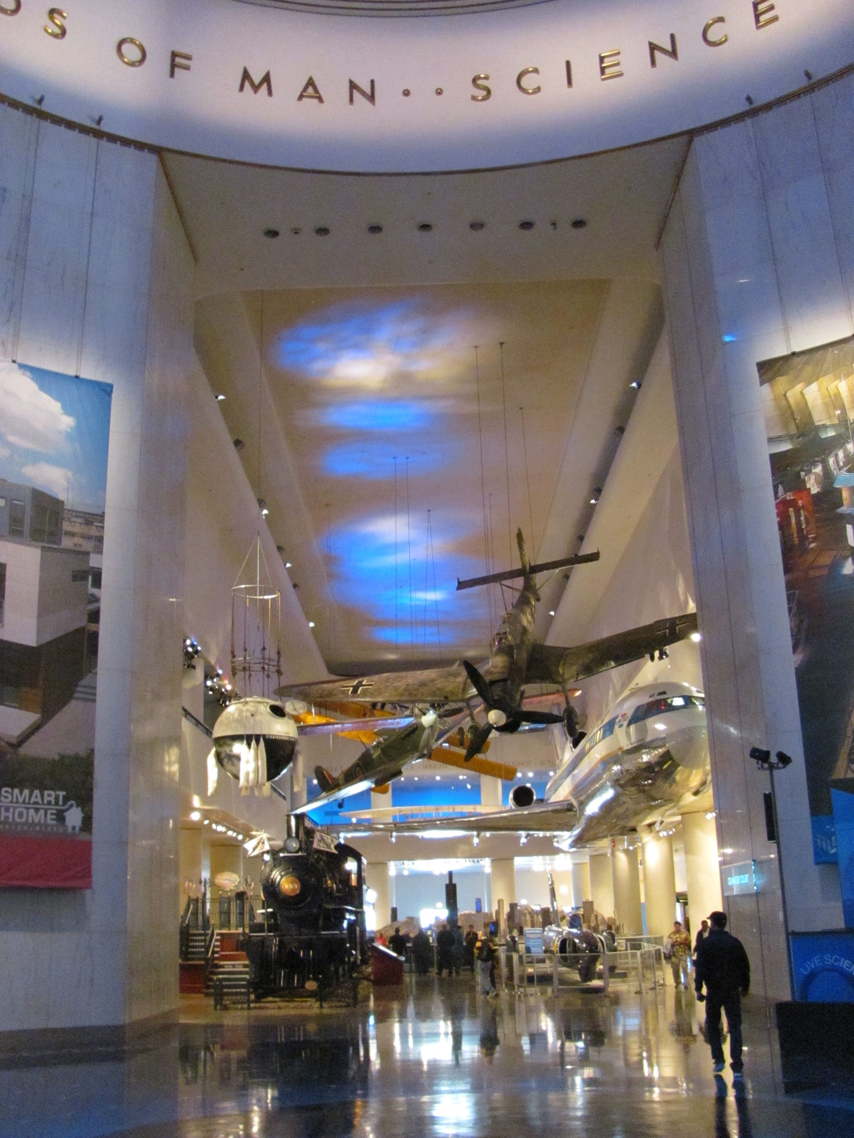 Transport Hall